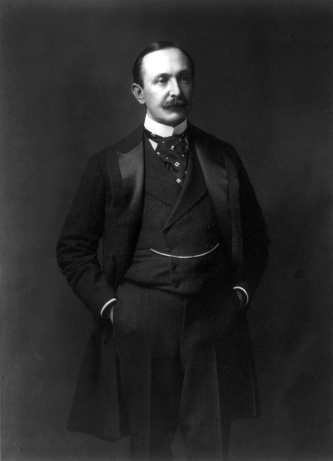 August Belmont, Jr., American financier